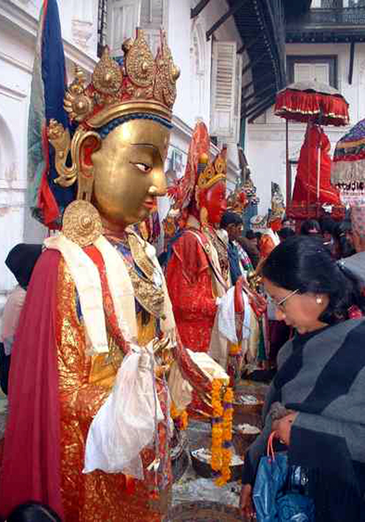 A row of Buddha statues on display during Samyak festival at Durbar Square in Kathmandu.